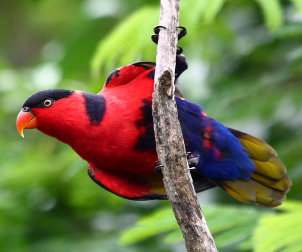 Black-capped Lory (Lorius lory) also known as Western Black Capped Lory or the Tricolored Lory at Jurong BirdPark, Singapore.